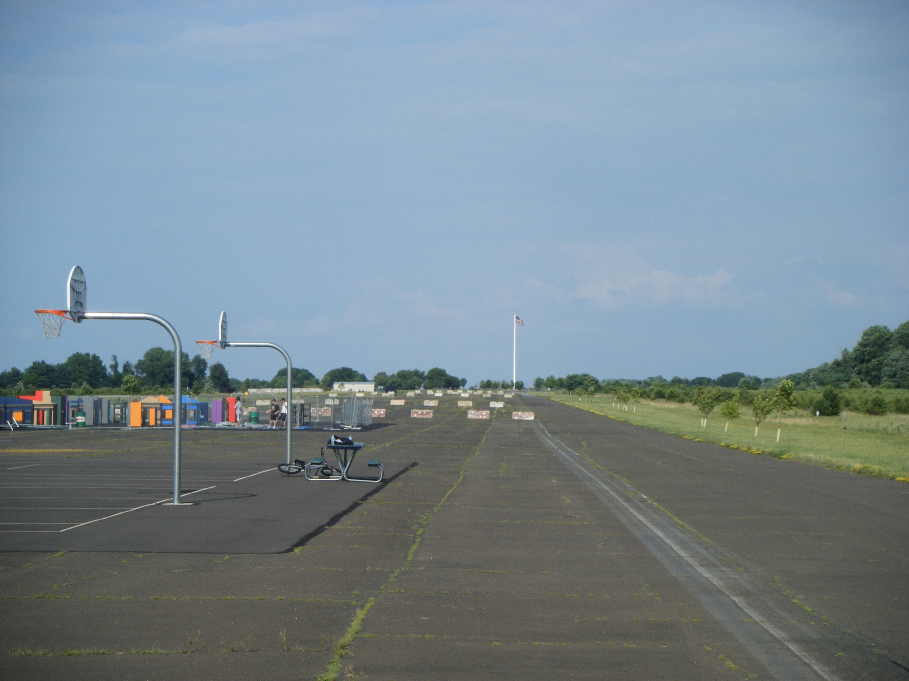 The Warminster Community Park in Warminster Township, Pennsylvania, with basketball courts and a miniature version of Warminster Township for children to ride tricycles and big wheels on located on the former runway of Naval Air Warfare Center Warminster